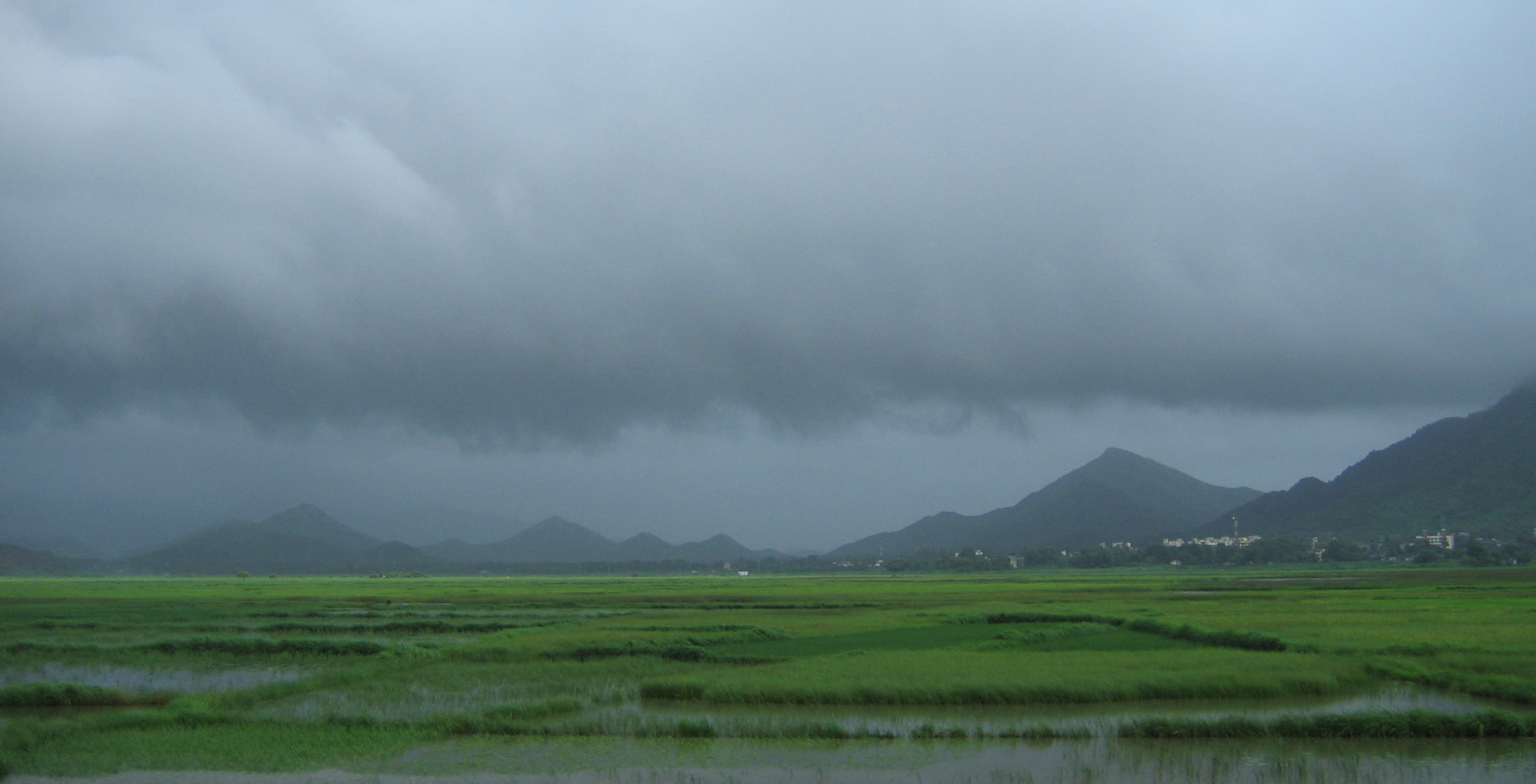 Western Railway - Views from an Indian Western Railway journey on a Monsoon Season